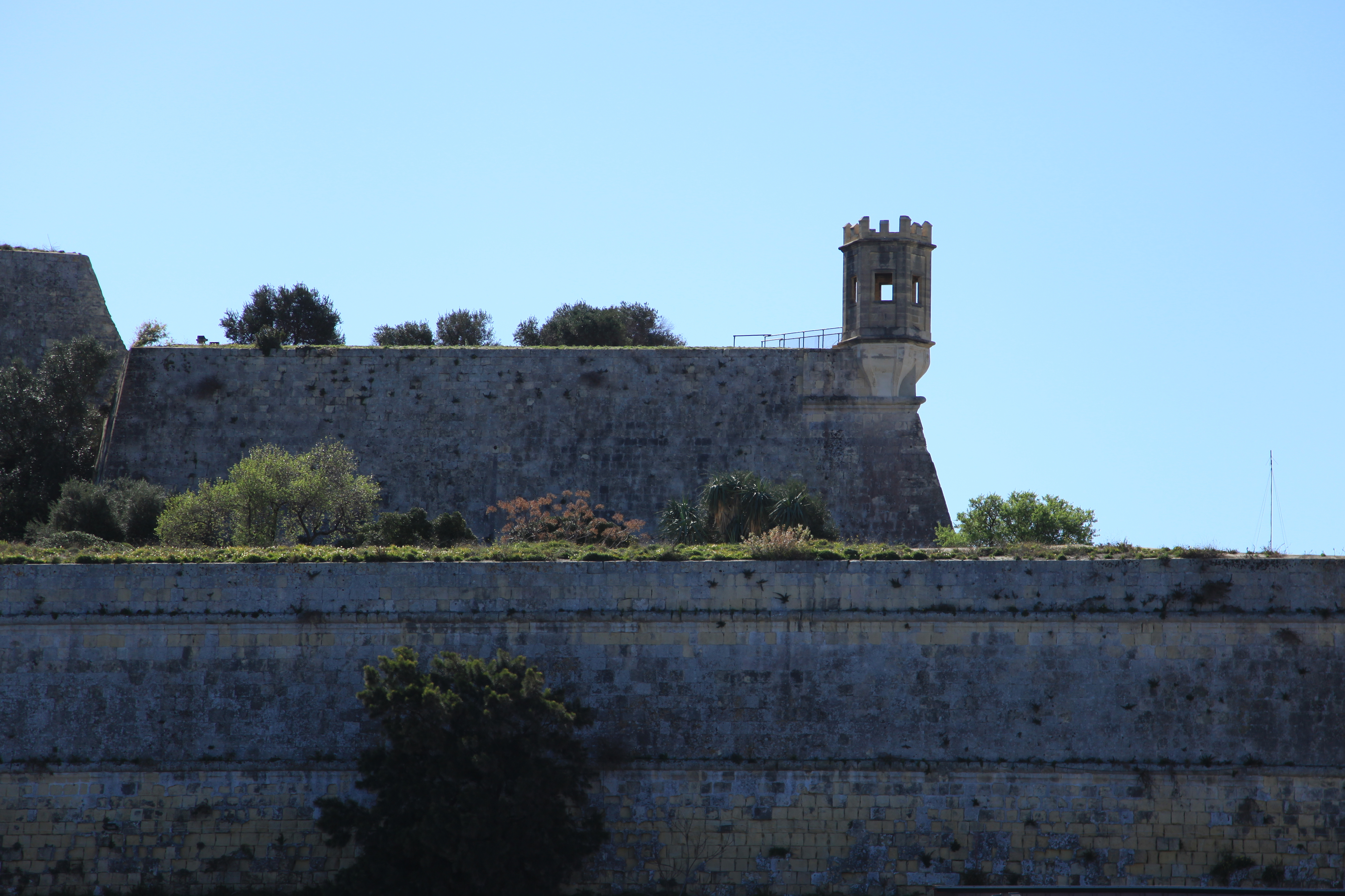 View from a Malta sightseeing two harbours cruise boat to San Salvatore Bastion and Counterguard at Triq Sa Maison in Floriana, Malta